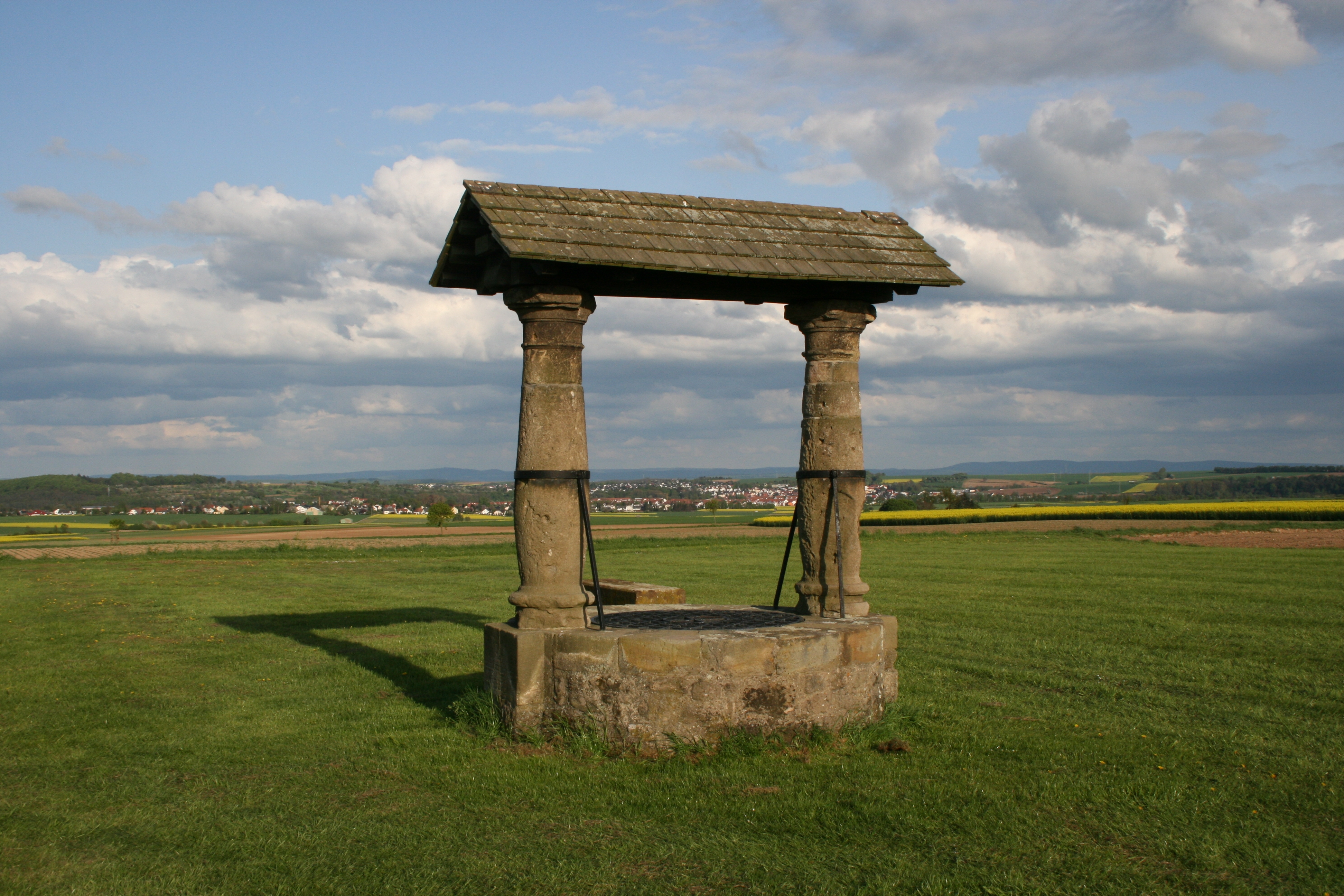 Reconstructed roman well near Kaichen, Hessia, Germany. The columns were found inside the well.